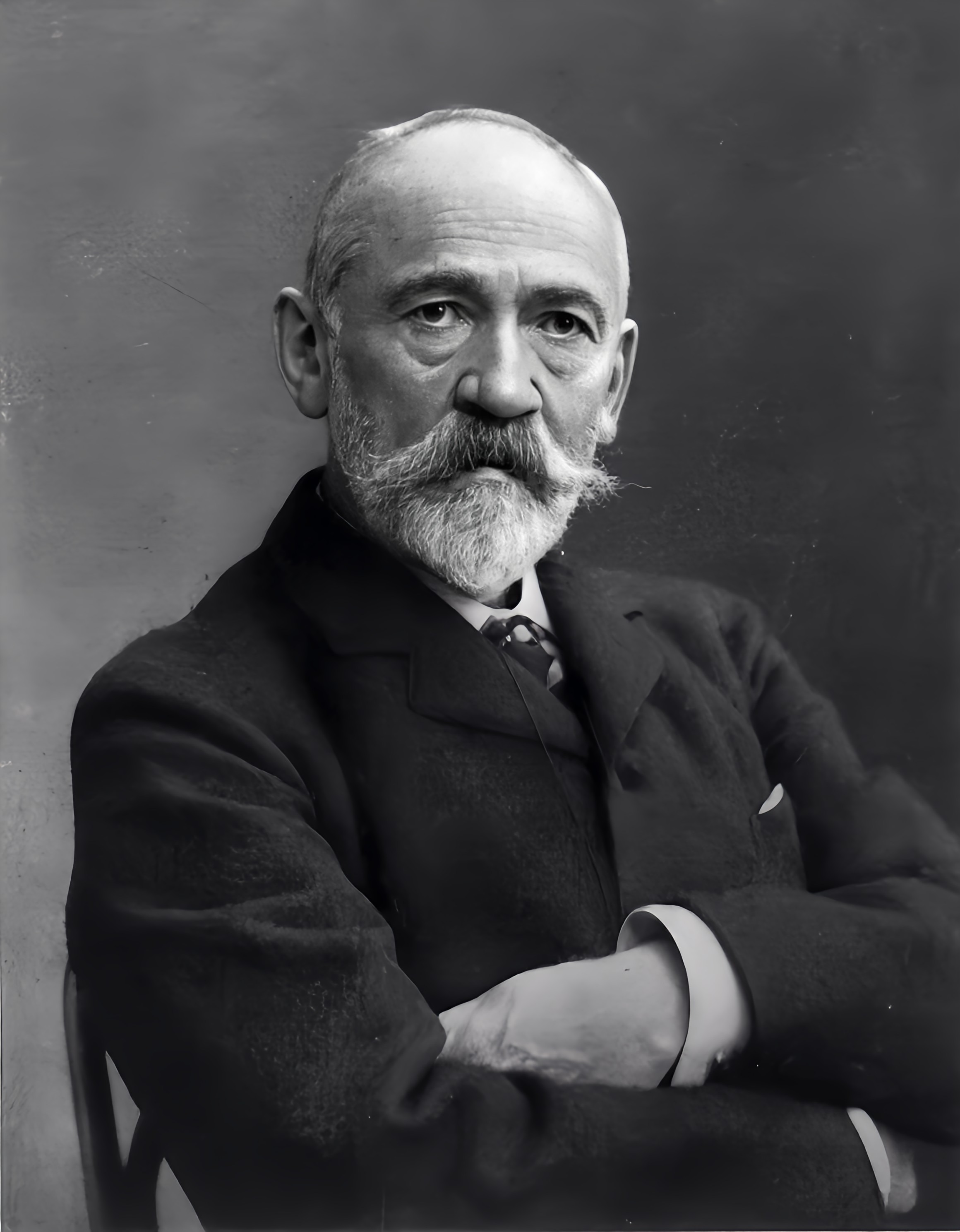 Cabinet photo of Ward